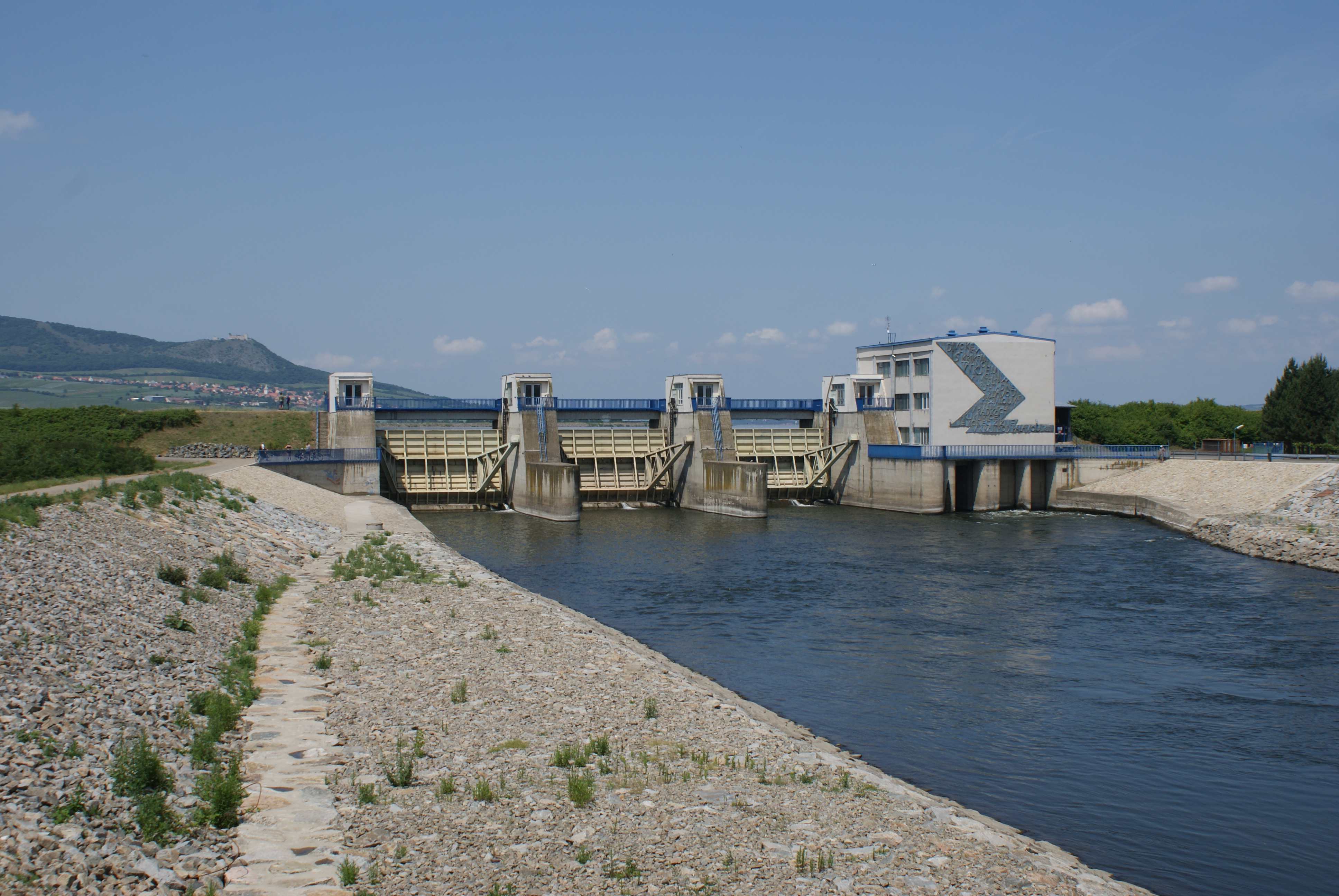 Nové Mlýny, a village in Břeclav District, Czech Republic, the Nové Mlýny Reservoir lock.